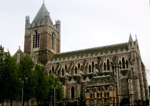 new image of Christchurch Cathedral in Dublin - my image taken tonight, no copyright